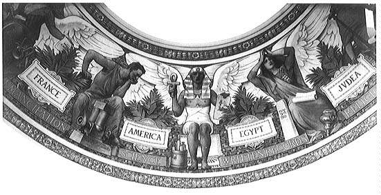 A portion of the mural above the Library of Congress' Main Reading Room that depicts the countries, or epochs, that contributed to the "Evolution of Civilization"